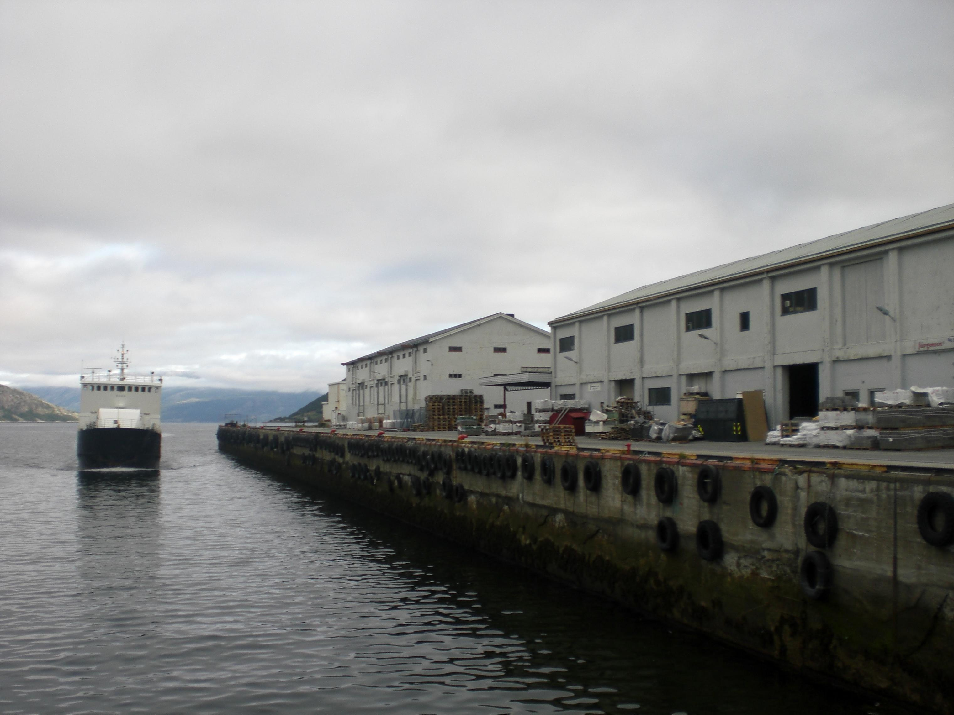 Port and ferry quay in Mosjøen, Norway.